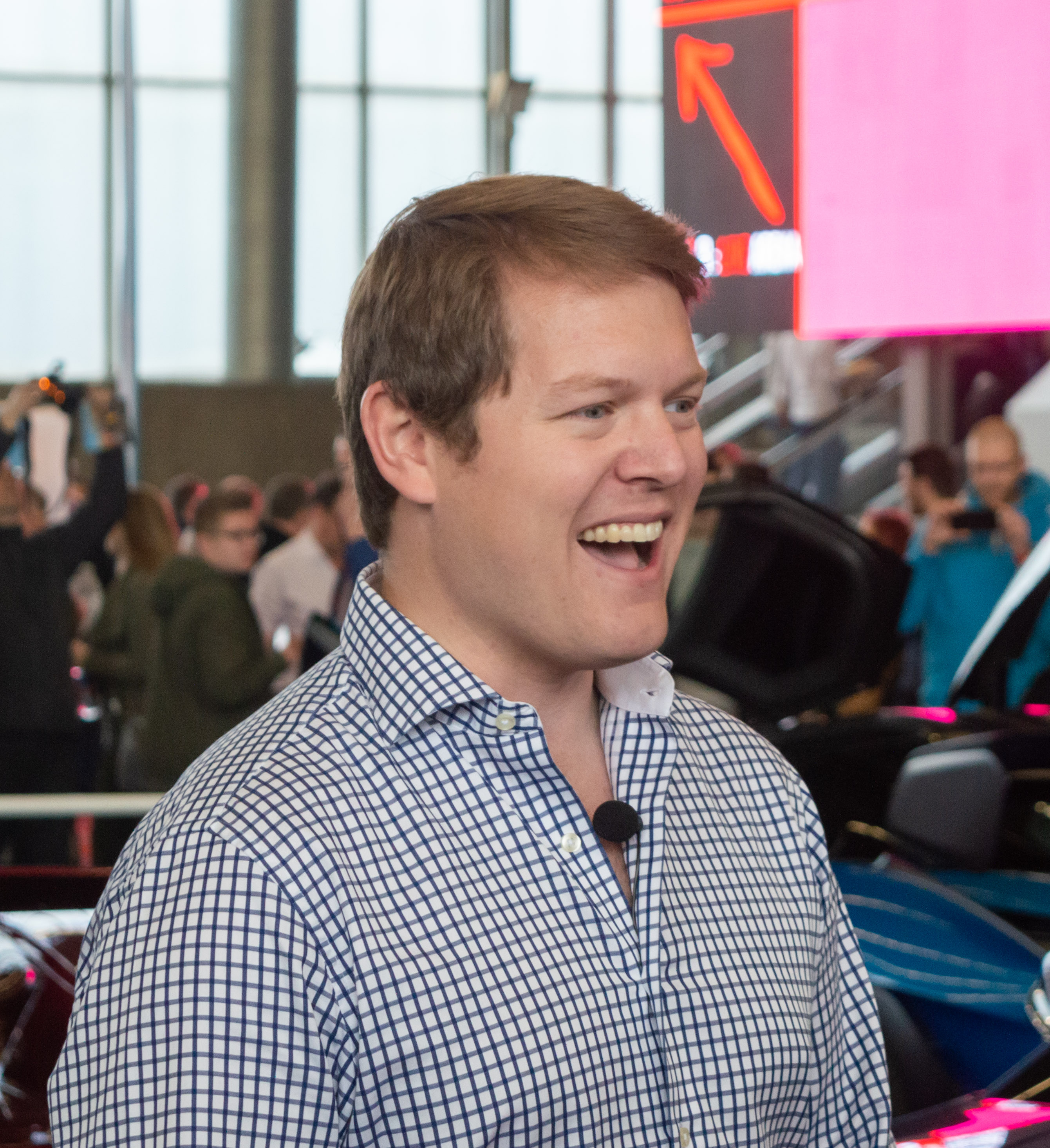 Tim Burton "Shmee150" being filmed at the 2019 International Amsterdam Motor Show.